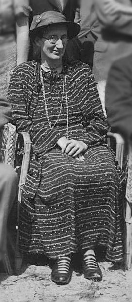 Ruth Fry (cropped version of File:Photo 7 Council 1938, WRI.jpg)